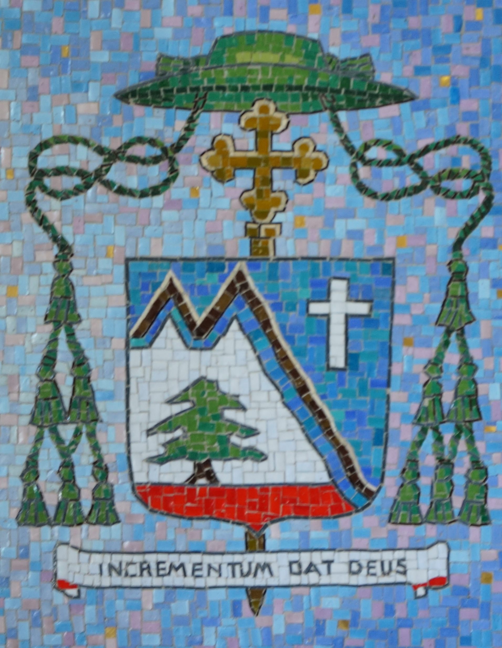 Mosaic of Bishop Anthony F. Tonnos' coat of arms as found in on display in Our Lady of Victory Mausoleum located inside Holy Sepulchre Cemetery, Burlington Ontario.